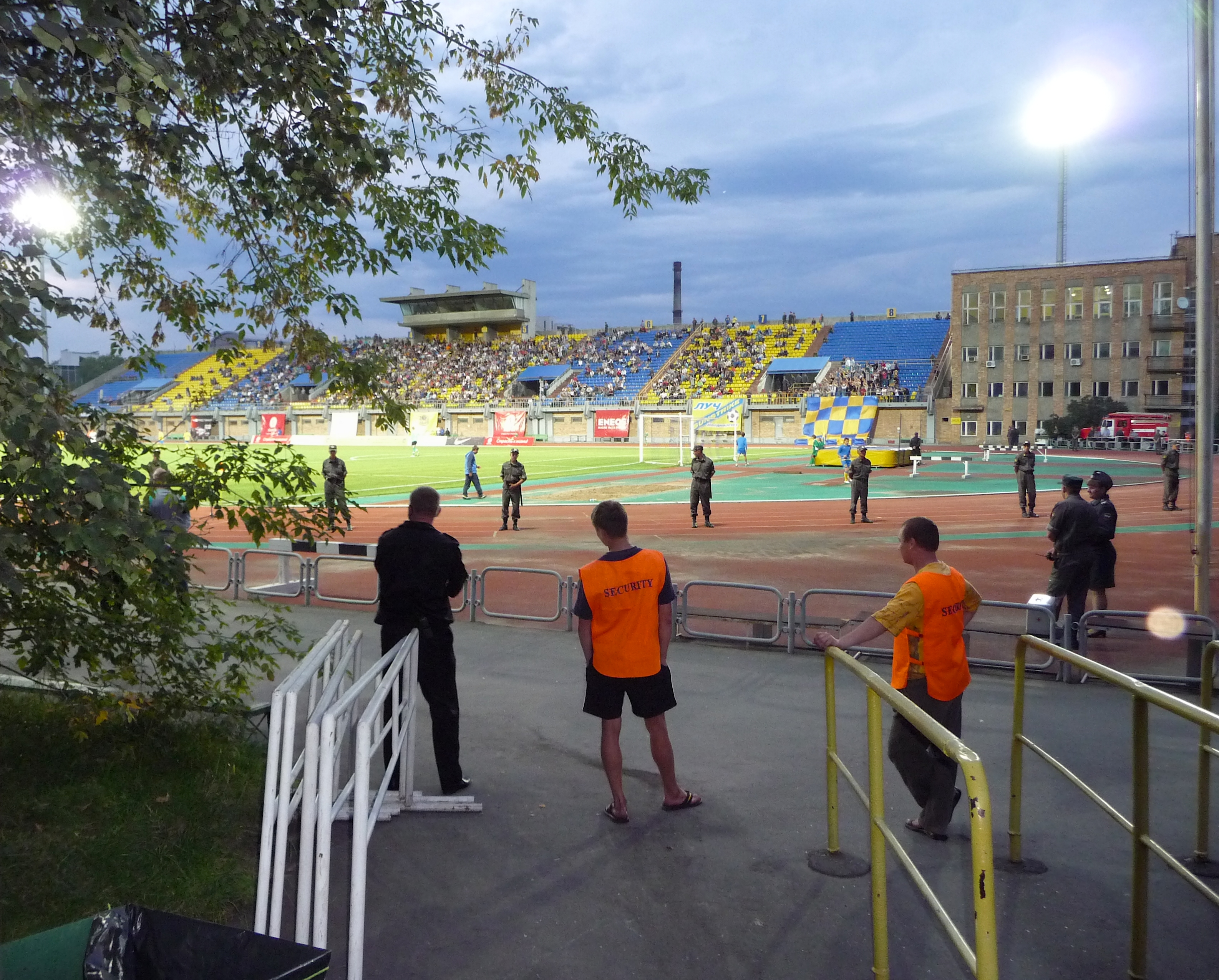 Football match in Vladivostok (Primorsky Krai, Russia).